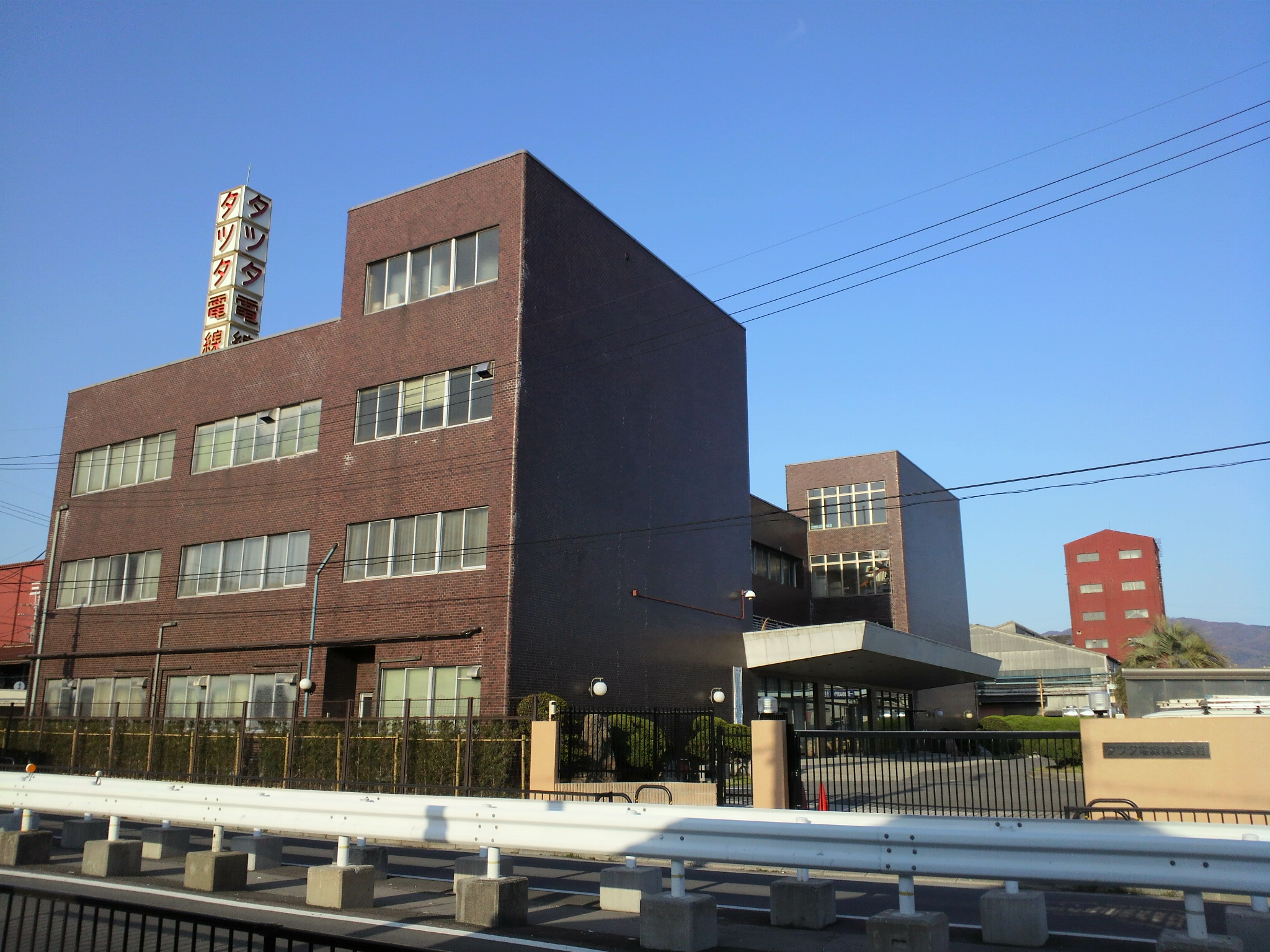 Headquarters of Tatsuta Electric Wire Cable Co,.Ltd. in Higashiosaka, Osaka, Japan